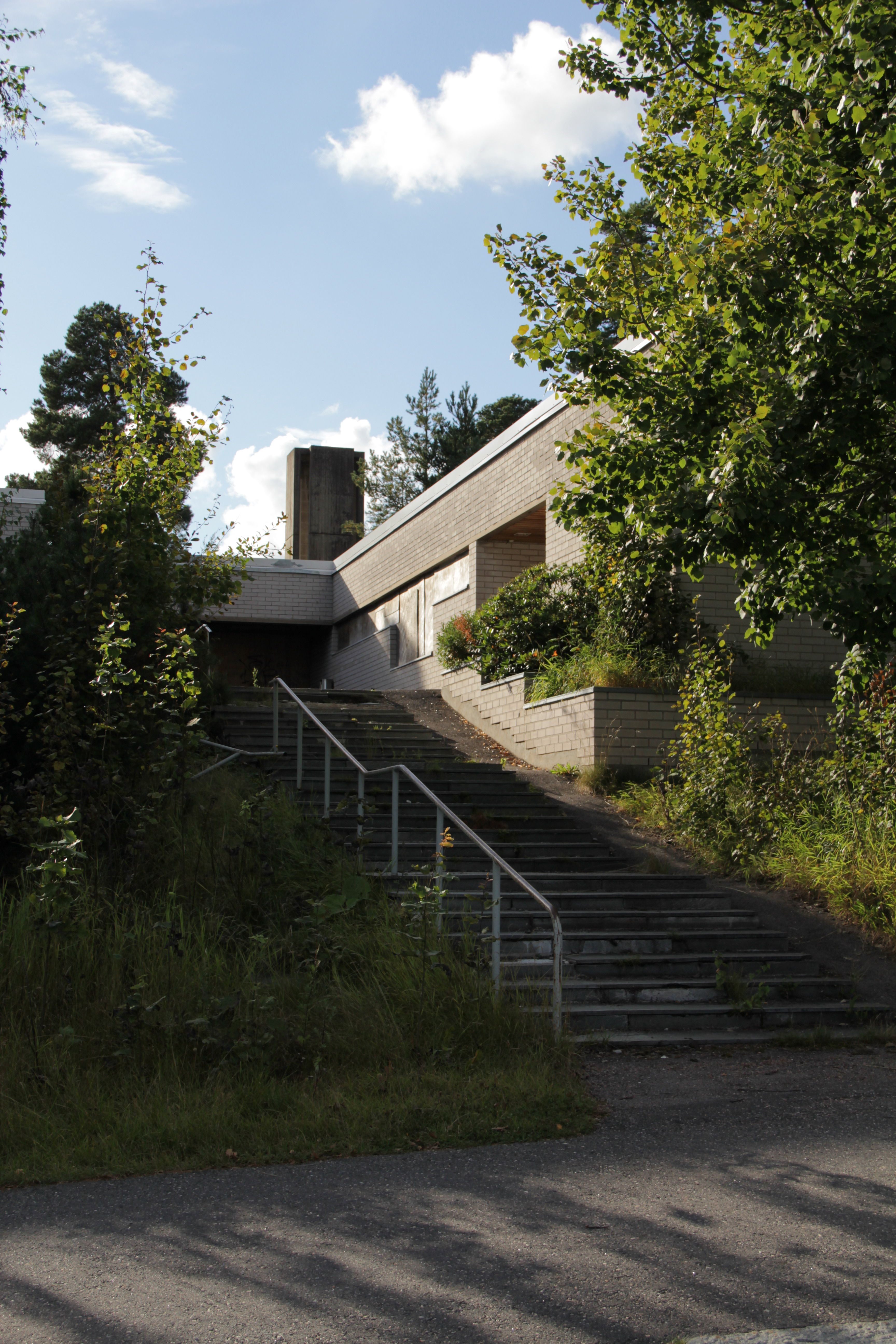 Kaivoksela church, Vantaa, Finland. The church is designed by architect Aarne Ehojoki and was completed in 1969. It burned down inside in 2006. Steps to the main entrance.